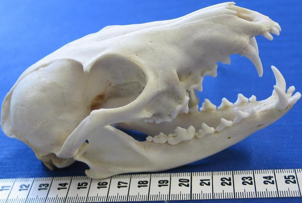 Skull of a red fox (Vulpes vulpes), prepared by Sönke Behrends in the course of a student research project in the early 1990s, and photographed by the same person in 2004